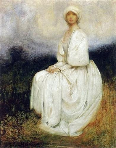 The Girl in White